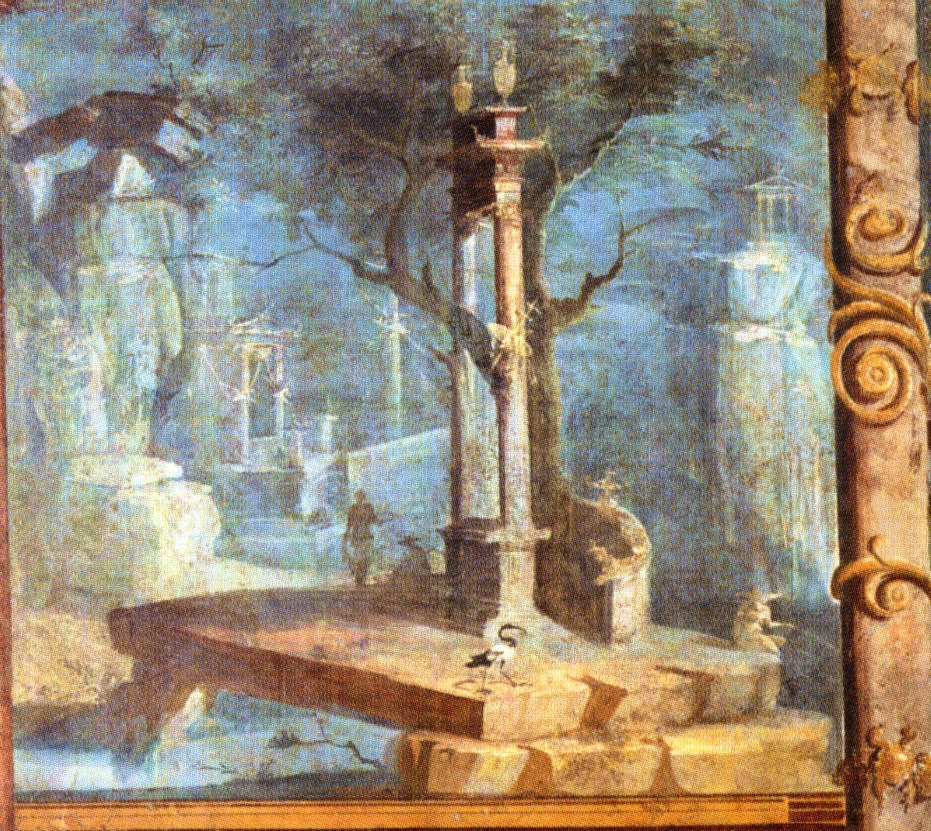 Landscape with Ibis. Roman fresco from the temple of Isis in Pompeii. Museo Archeologico Nazionale (Naples)